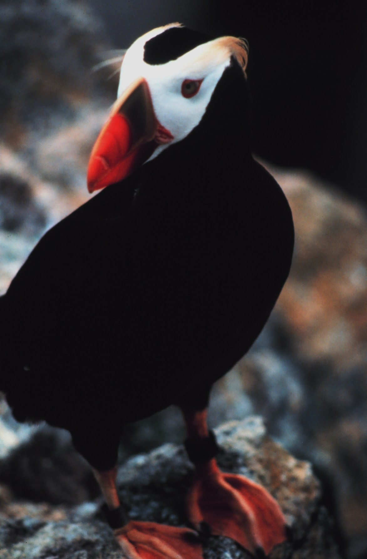 Tufted Puffin, Gulf of the Farallones NMS, California